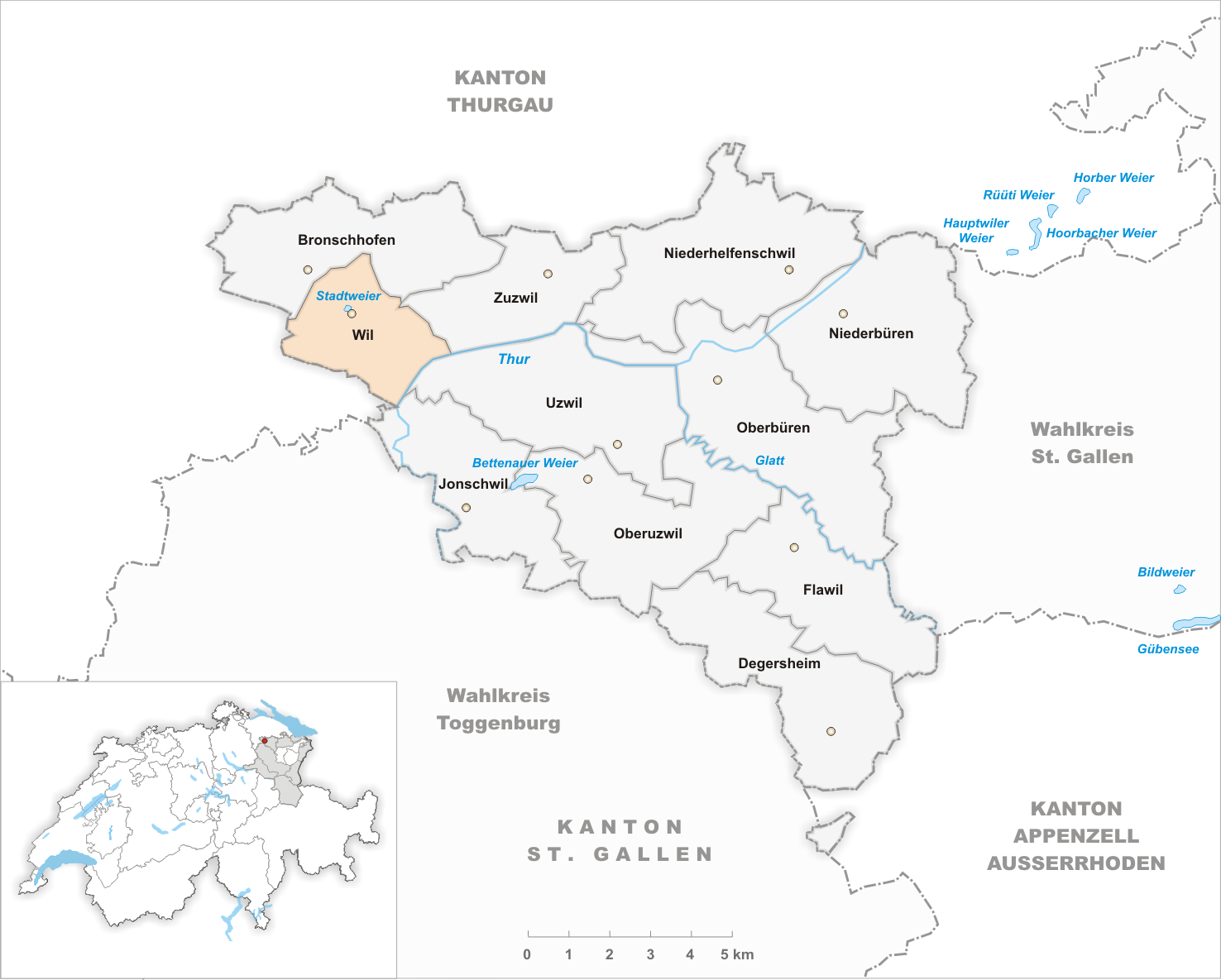 Municipality Wil